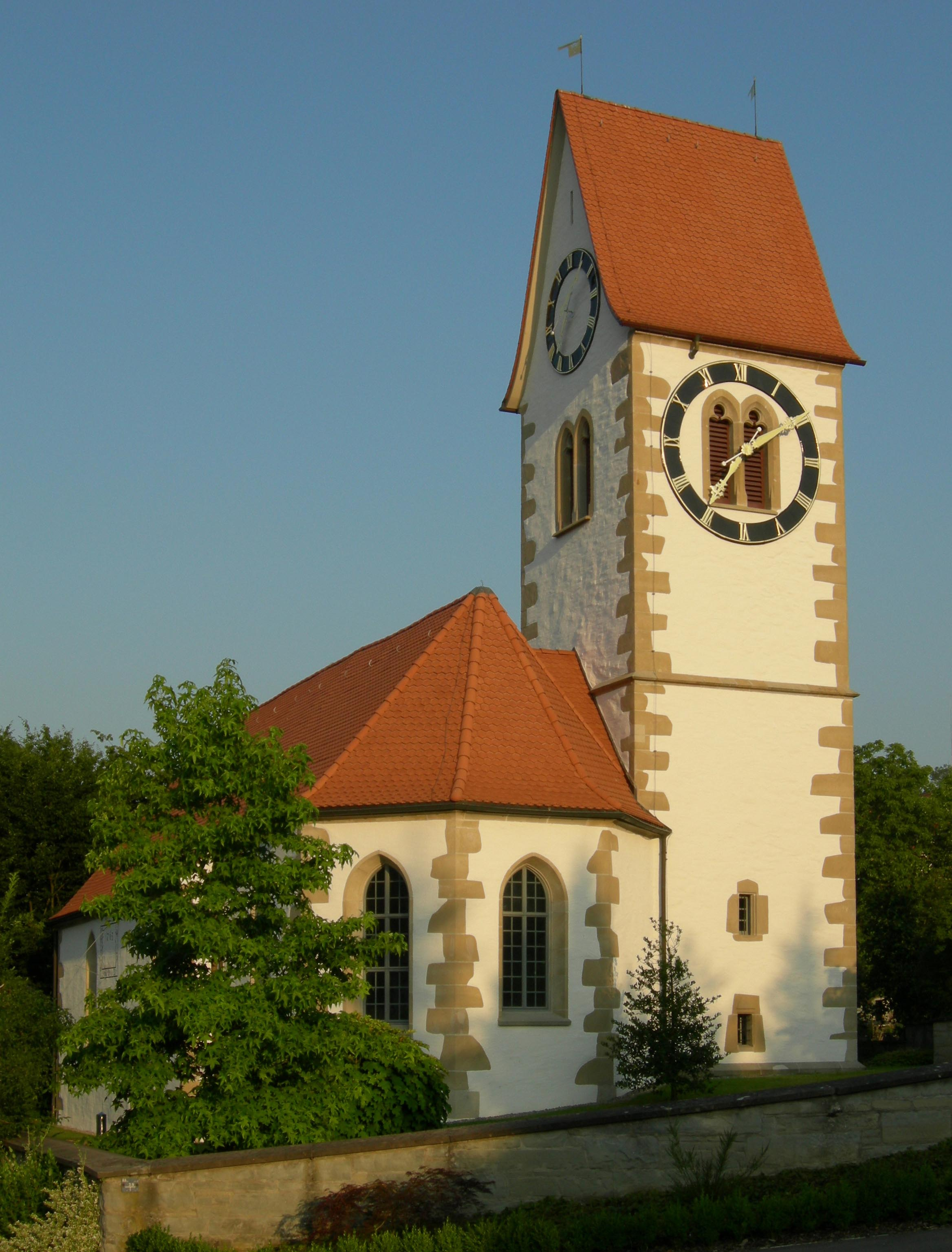 The reformed church of Knonau, Canton of Zurich, Switzerland.